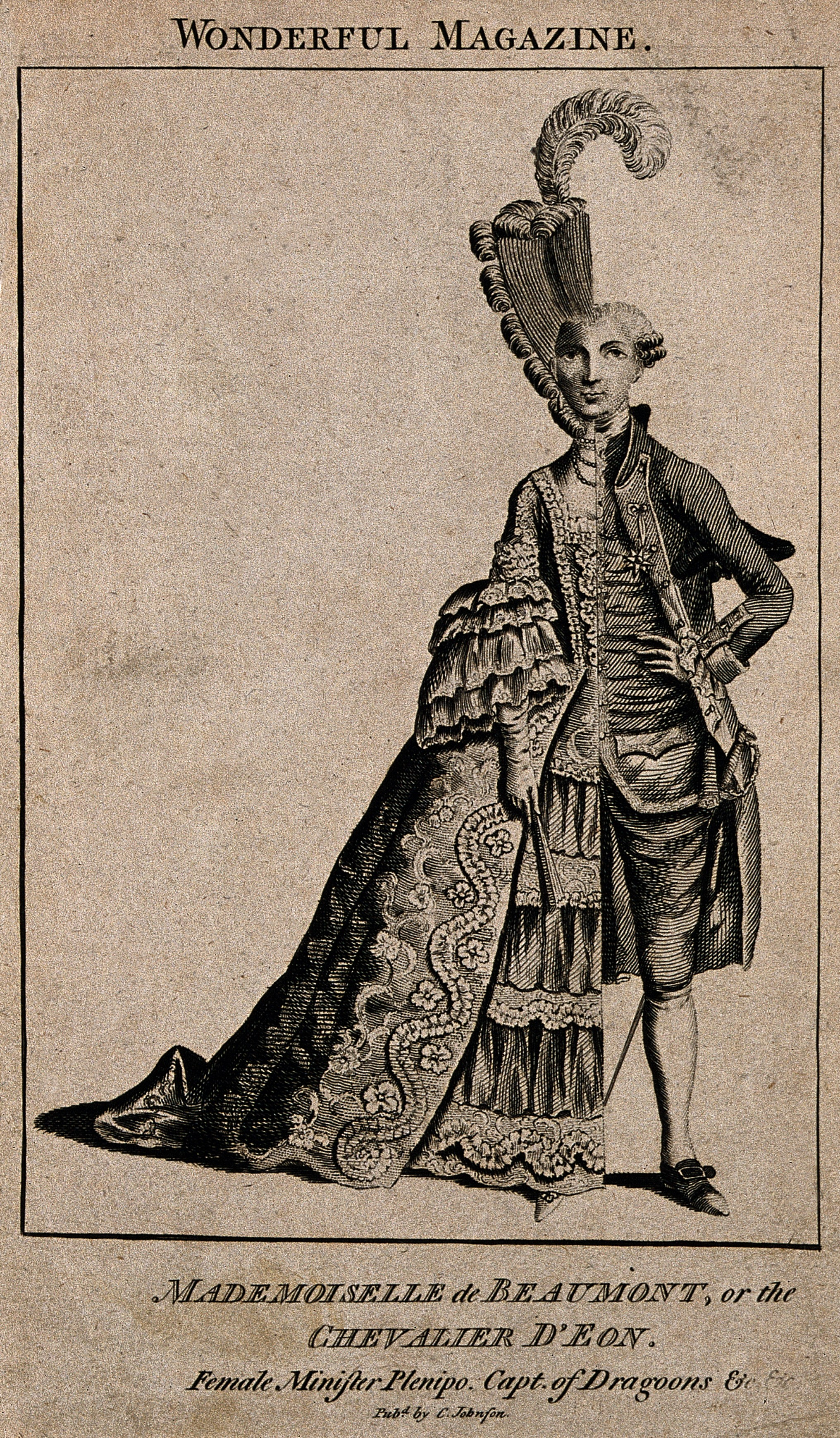 Le Chevalier D'Éon, a man who passed as a woman: shown half in woman's, half in man's attire. Engraving. Iconographic Collections Keywords: 1728-1810; Charles-Geneviève-Louis-Auguste-André-Timothée Éon; portrait prints; engravings; spying; Transvestism; beon, charles-geneviaeve-louis